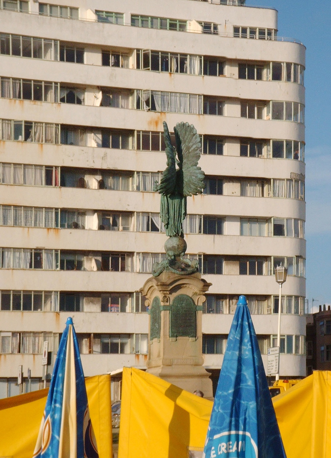 Embassy Court, Brighton and Hove 2001.